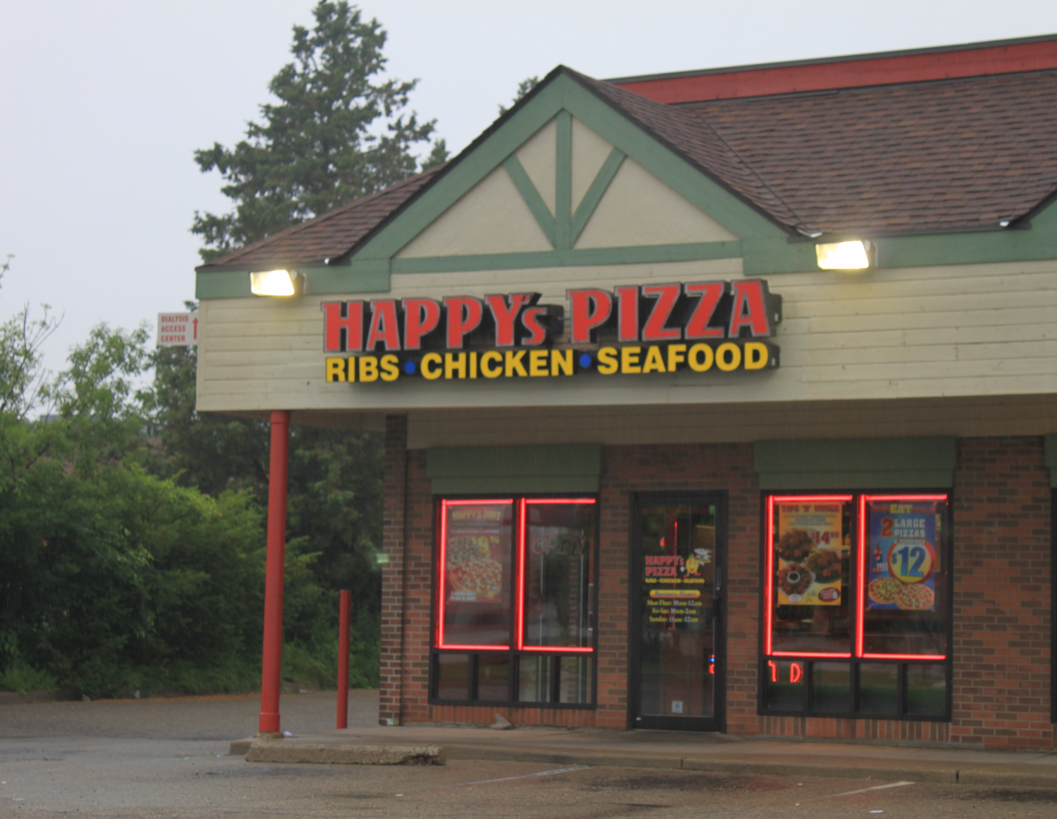 Happy's Pizza location, 2896 Washtenaw Ave. Ypsilanti Twp., Michigan